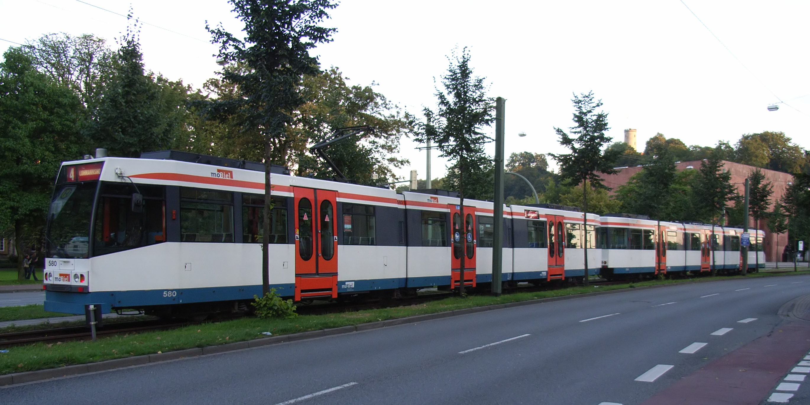 Bielefeld, Germany: Tram-train type M8D of the Stadtbahn Bielefeld.